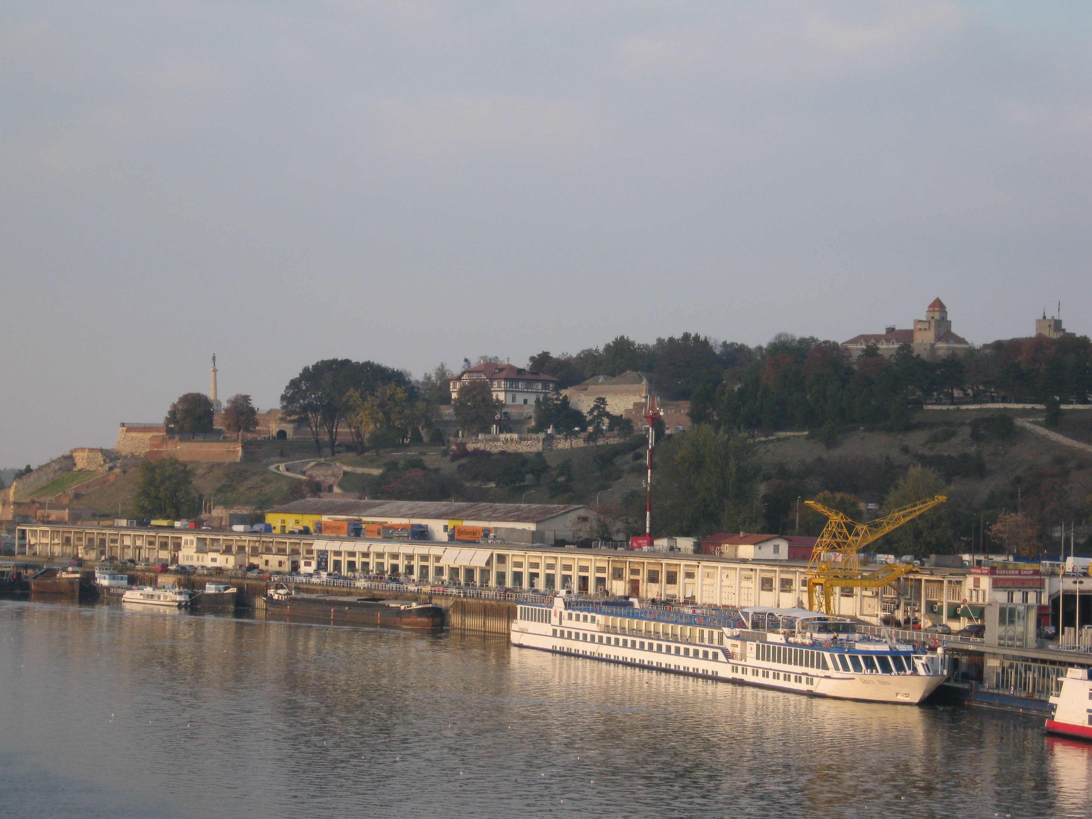 Port of Belgrade and Belgrade Fortress, view from the Branko's Bridge.